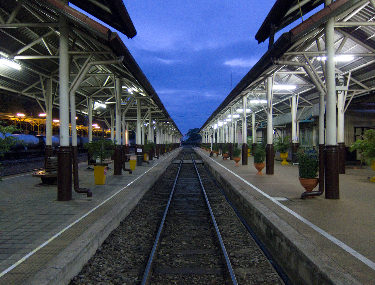 Train station - Khon Kaen